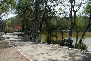 Jagüey hidalgo